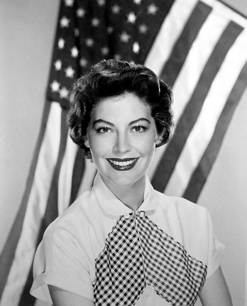 Promotional photograph of actor Ava Gardner (1940-е)